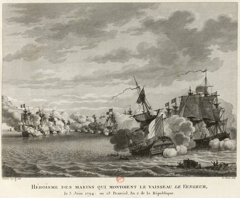 The Battle of the Glorious First of June. Although a tactical British victory, Admiral Howe failed to achieve the broader strategic aim of intercepting a vital grain convoy bound for the famine-ridden French populace.